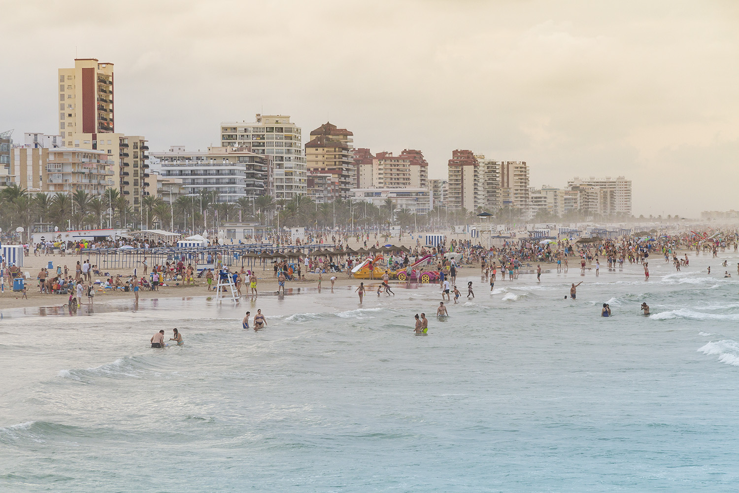 Gandia Beach